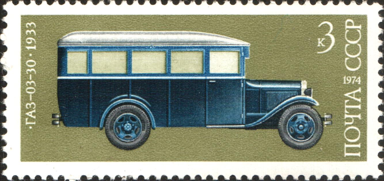 USSR stamp